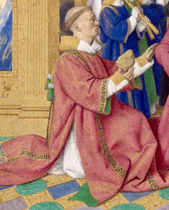 Detail showing Etienne Chevalier, from a minature showing Etienne Chevalier with his patron saint St Etienne